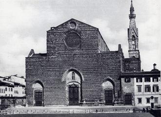 The facade of Santa Croce, Florence